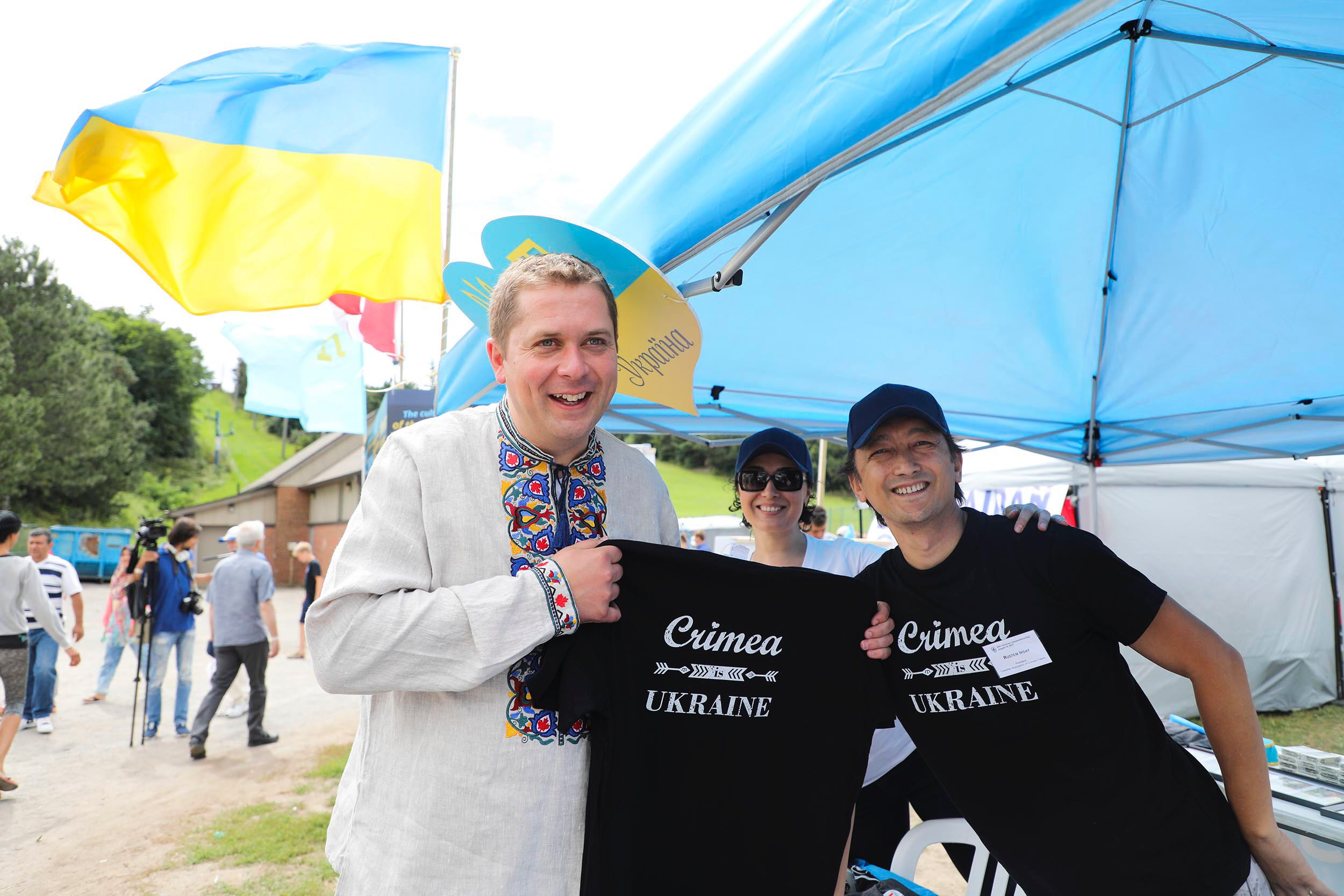 Andrew Scheer PC MP celebrates Ukrainian Independence Day in Etobicoke.